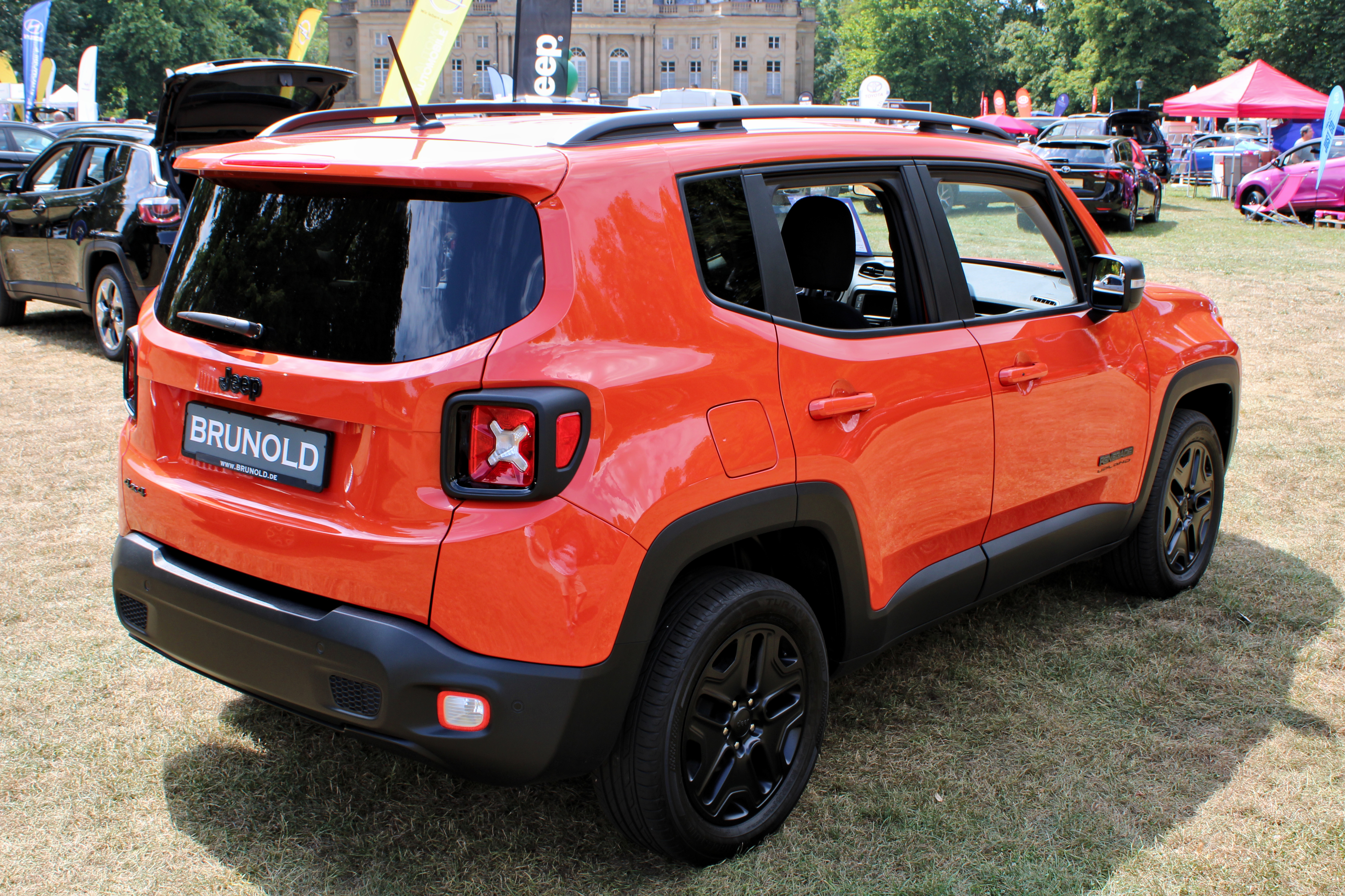 Jeep Renegade at schloss Monrepos